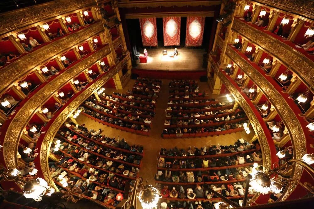 2015 Khenpo Sodargye Talk in Italy